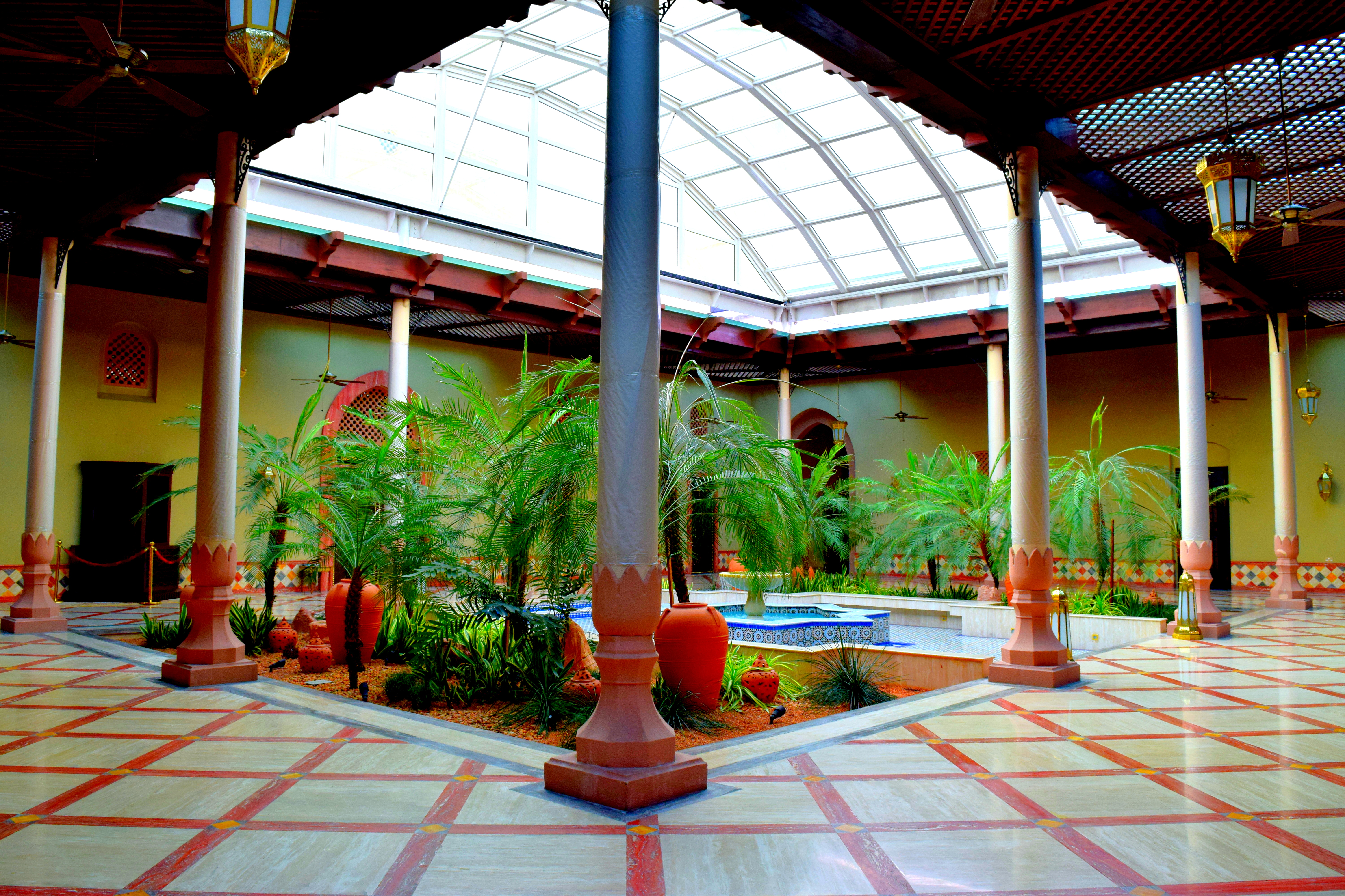 This is the mosque that been create beautiful.